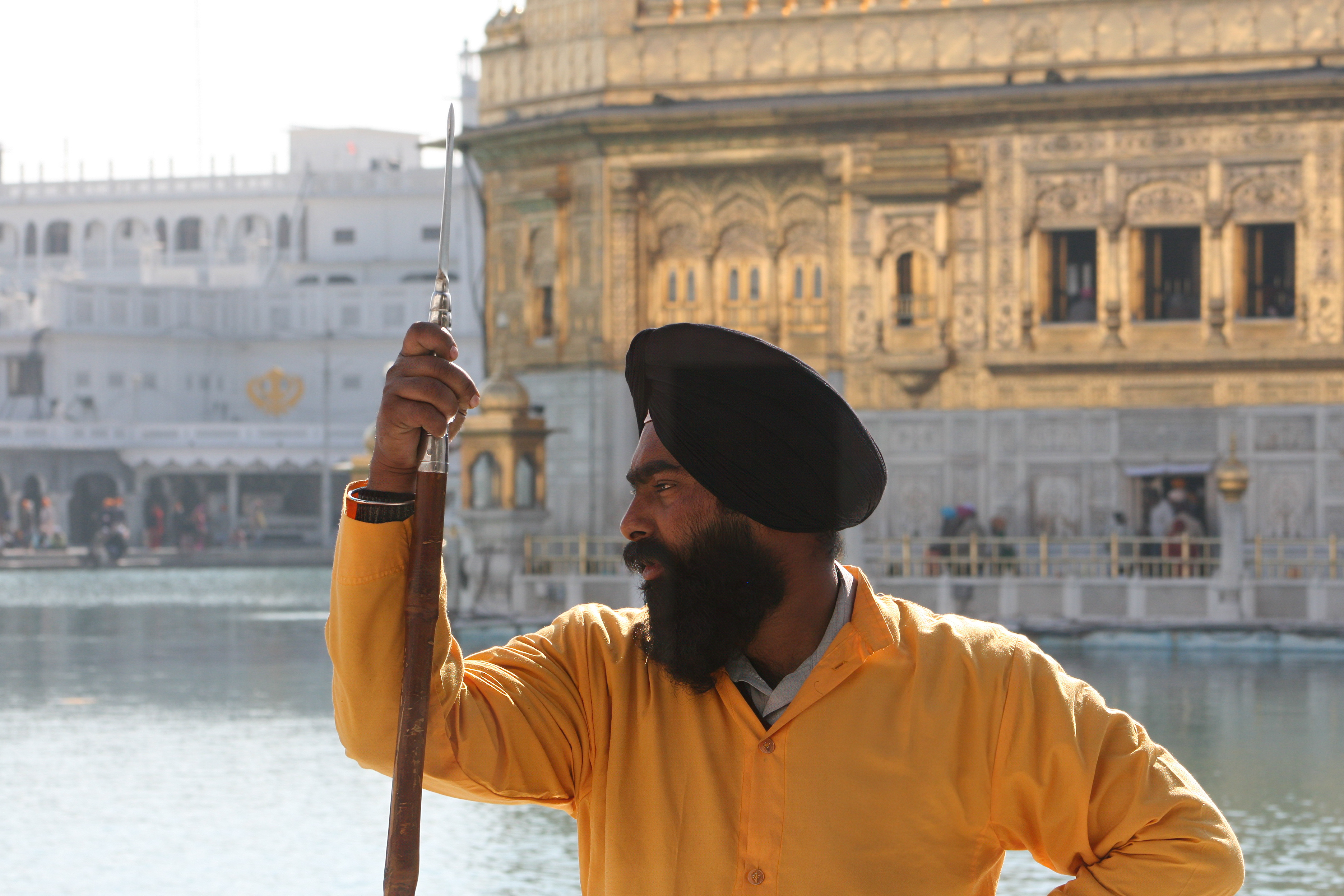 Harmandir Sahib or the Golden Temple, Amritsar, India